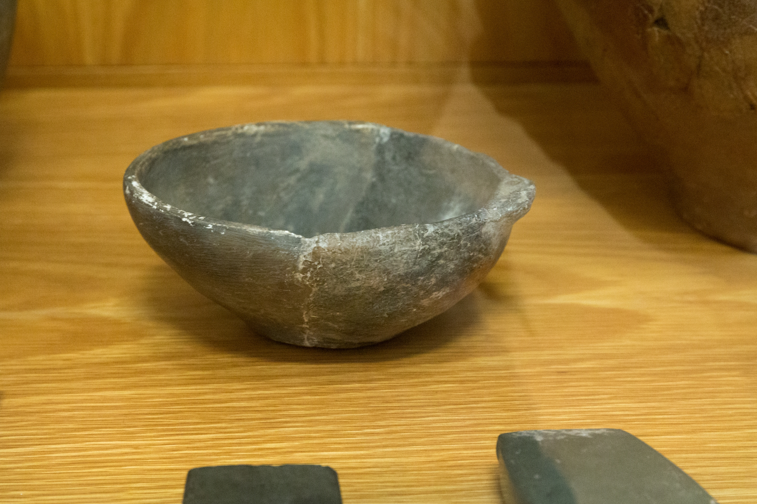 Pottery of the Řivnáč culture. Copper Age. Homolka near Stehelčeves. The Sládeček Museum of Local History in Kladno.